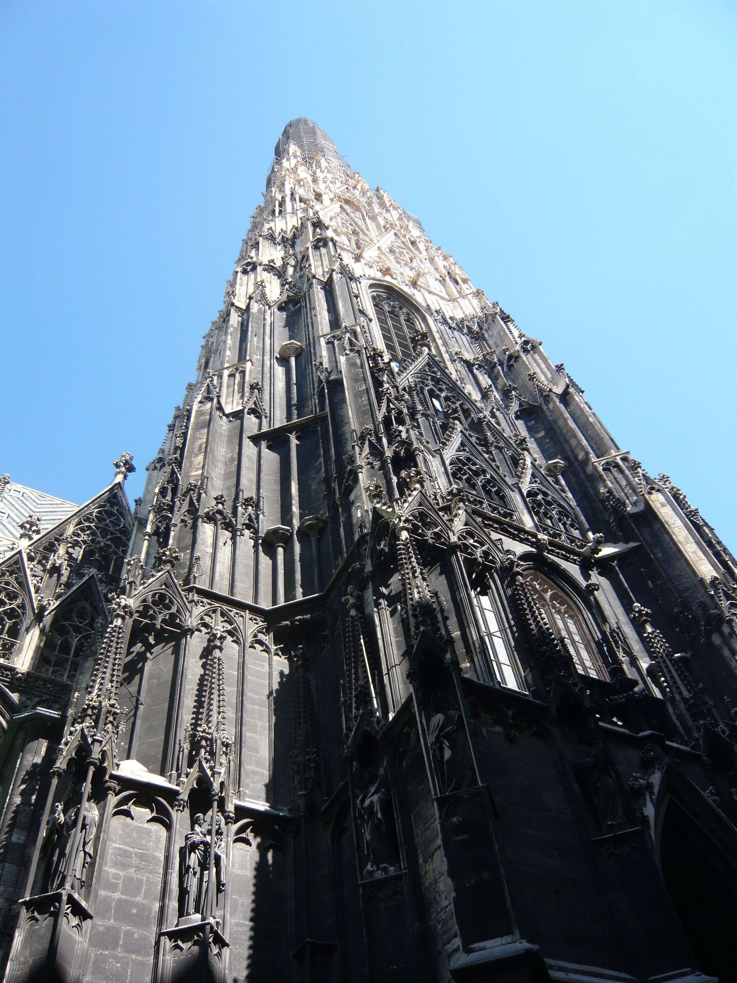 Stephansdom(St. Stephen's Cathedral), Wien, Austria